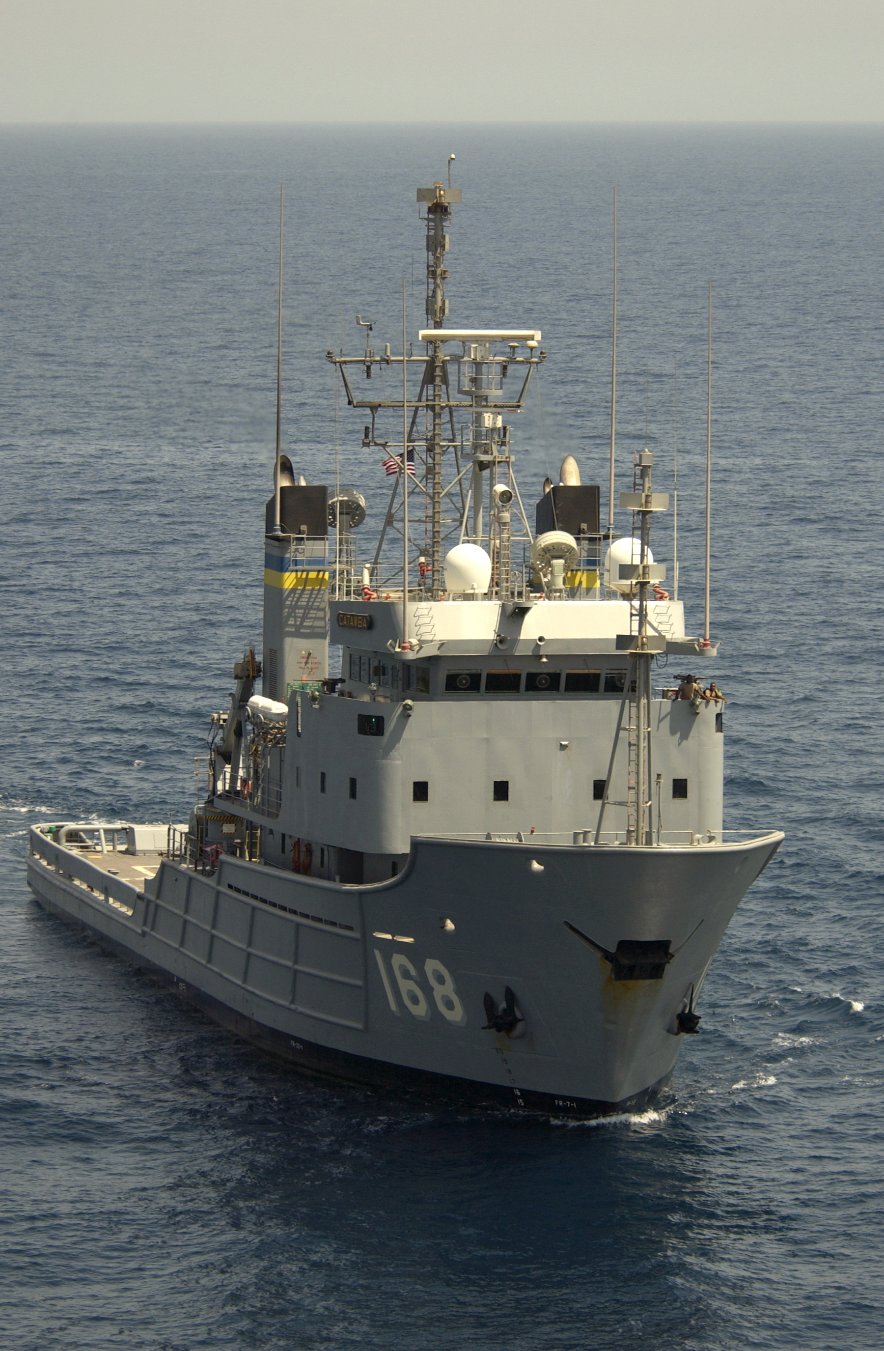 Arabian Gulf (June 19,2004) — The Military Sealift Command (MSC) fleet ocean tug USNS Catawba (T-ATF-168) cruises the Arabian Gulf while participating in exercises. Catawba is on a regularly scheduled deployment in support of Operation Iraqi Freedom (OIF).